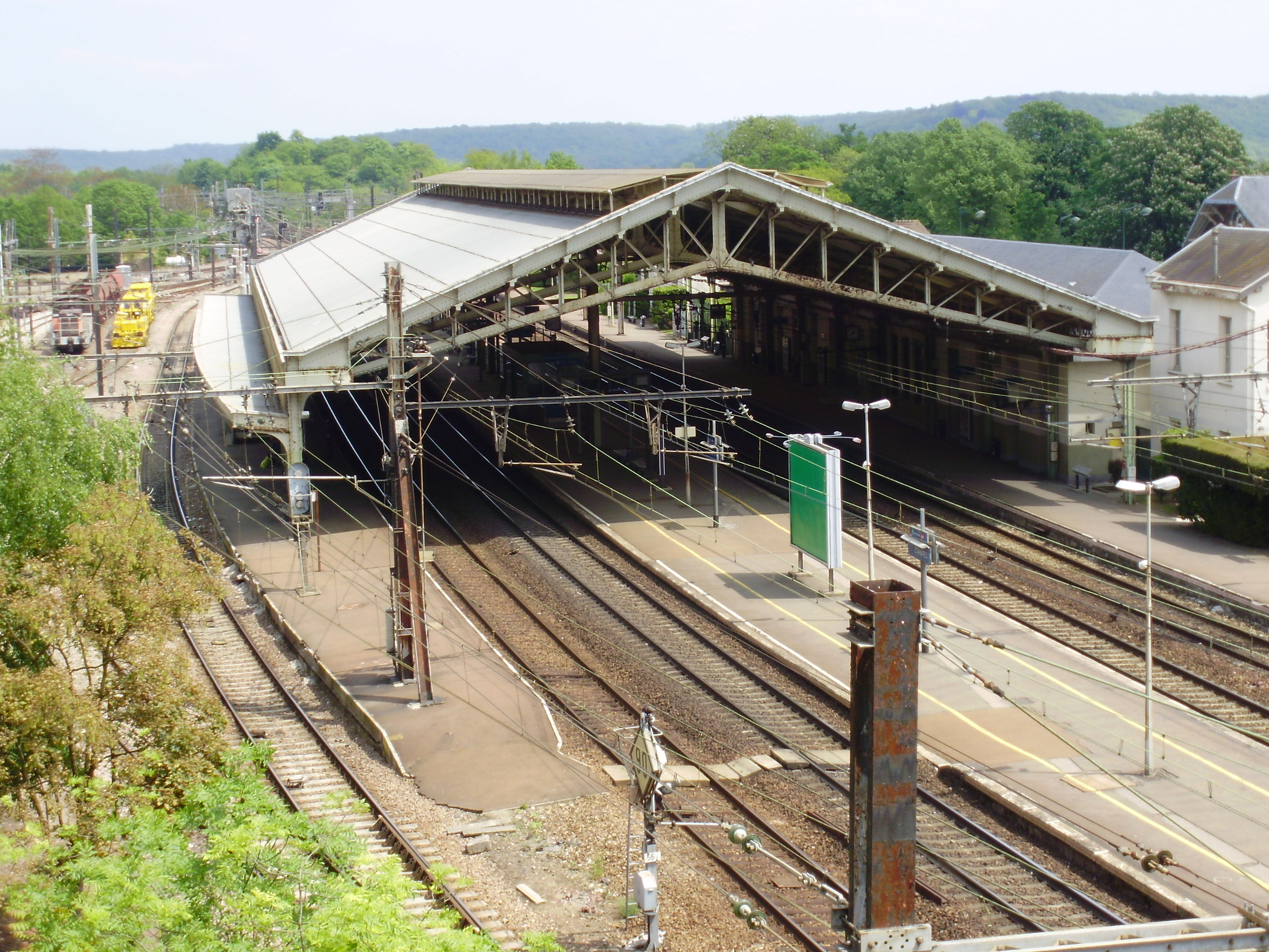 Étampes station, Essonne, France (General view : tracks and glass-roof)